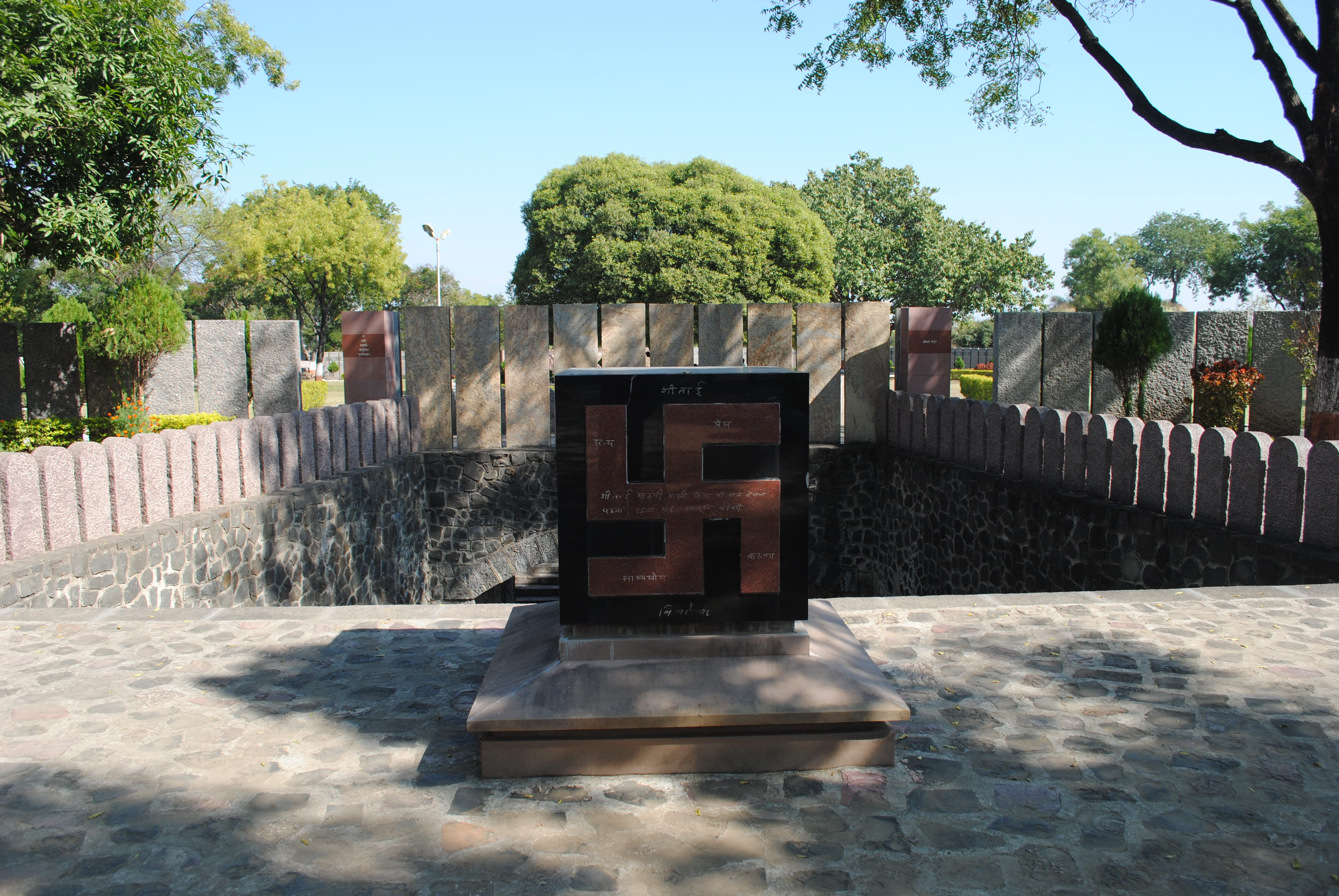 Thi Gitai Mandir is a unique temple in India which has no deity and roof. It has just walls made of granite slabs on which 18 chapters of Gitai (Shrimad-bhagwad-gita in marathi) are inscribed. The wall enclosed a little beautiful park. This temple was inaugurated by Acharya Vinoba Bhave in 1980.